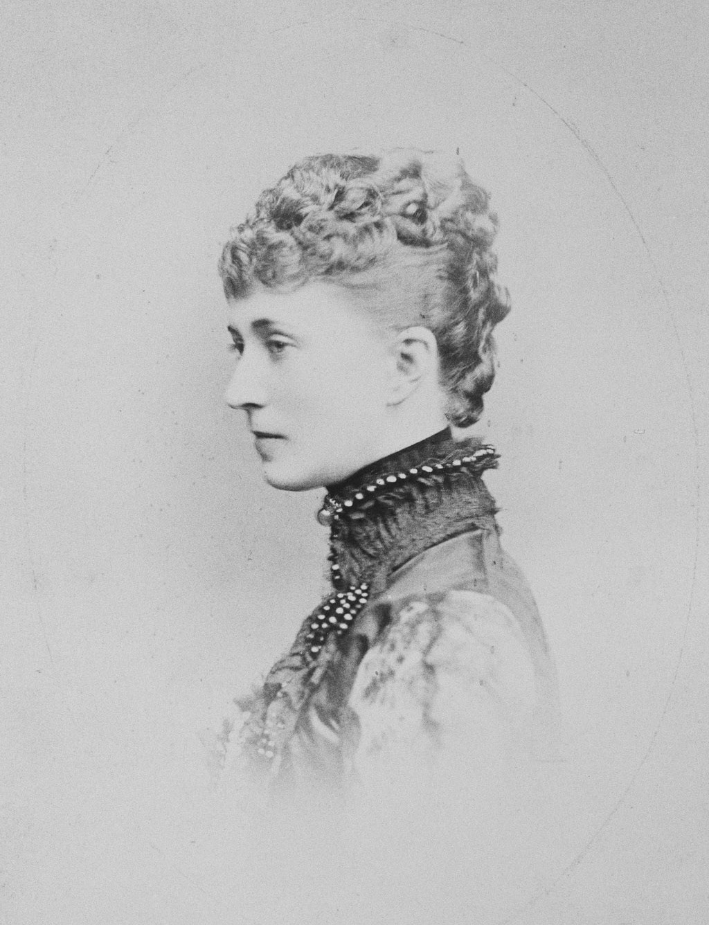 Photograph of Mrs Hélène Standish, wife of Henry Noailles Widdrington Standish. Royal Collection Trust, Her Majesty Queen Elizabeth II.